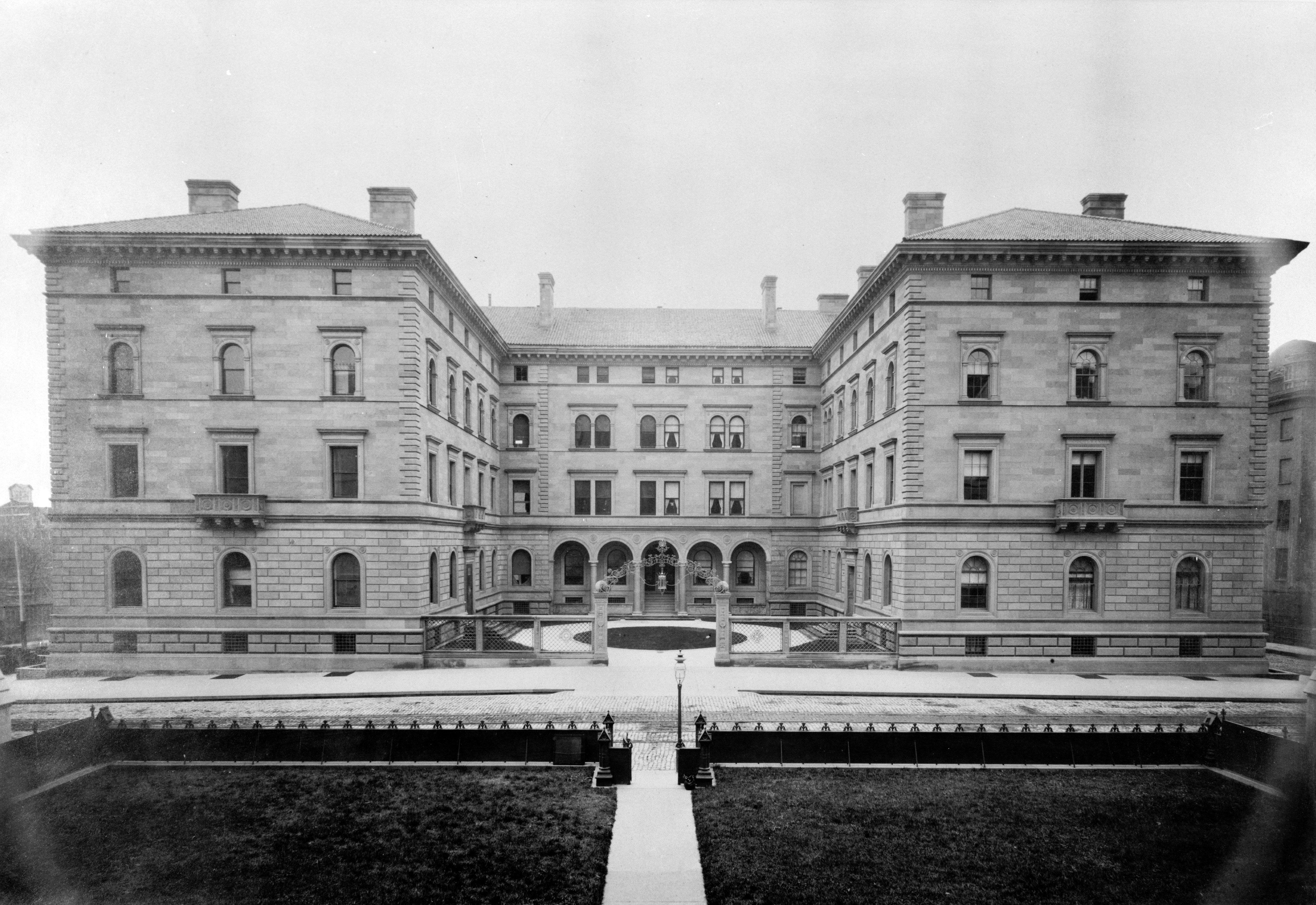 Villard Houses, 451-457 Madison Avenue & 24 East Fifty-first Street, New York, New York County, NY - west facade. Appearing as a single Italian palazzo, the Villard Houses were actually six residences built around a central courtyard by architects, McKim, Mead, and White